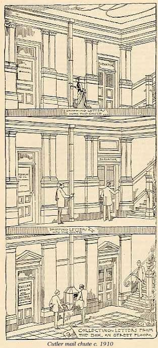 sketch of a turn of the century mail chute